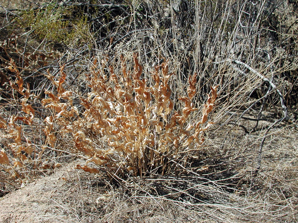 Acourtia wrightii above ground portions die off during dormancy turning characteristic yellow-brown color. Organ Pipe Cactus National Monument, Arizona, USA.